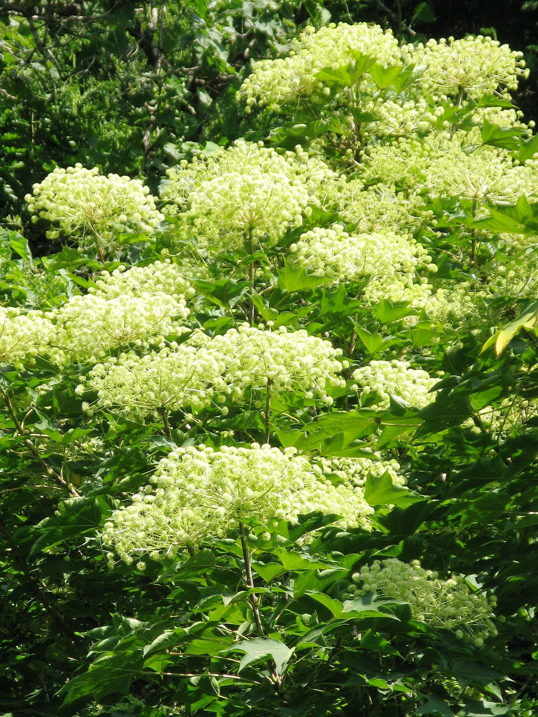 Kalopanax septemlobus, Aizu area, Fukushima pref., Japan